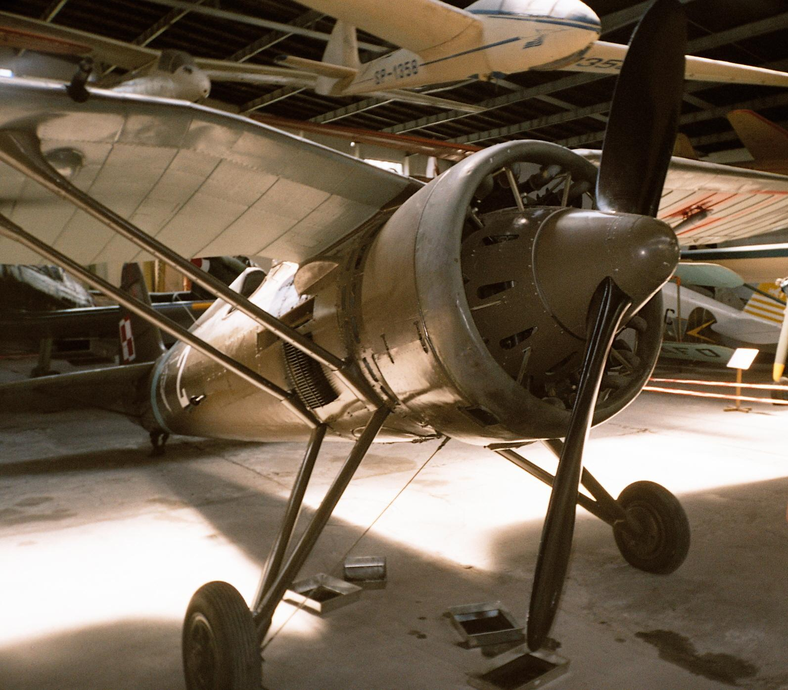 Szymon Wlazlowski, Krakow 2004. This image presents the sole surviving original Polish airplane PZL p11c, as on the display in the Polish Aviation Museum.